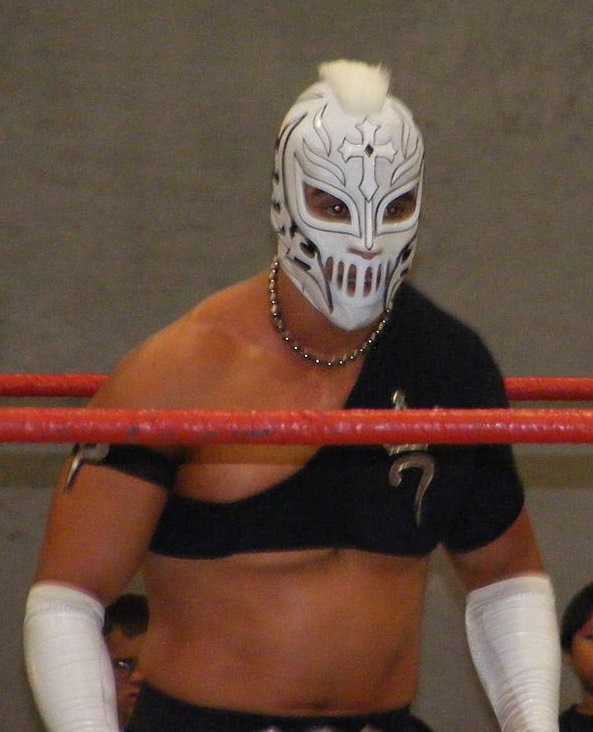 The New Hijo de Rey Misterio at a Viva la Lucha show in San Diego, California, in July 2011.